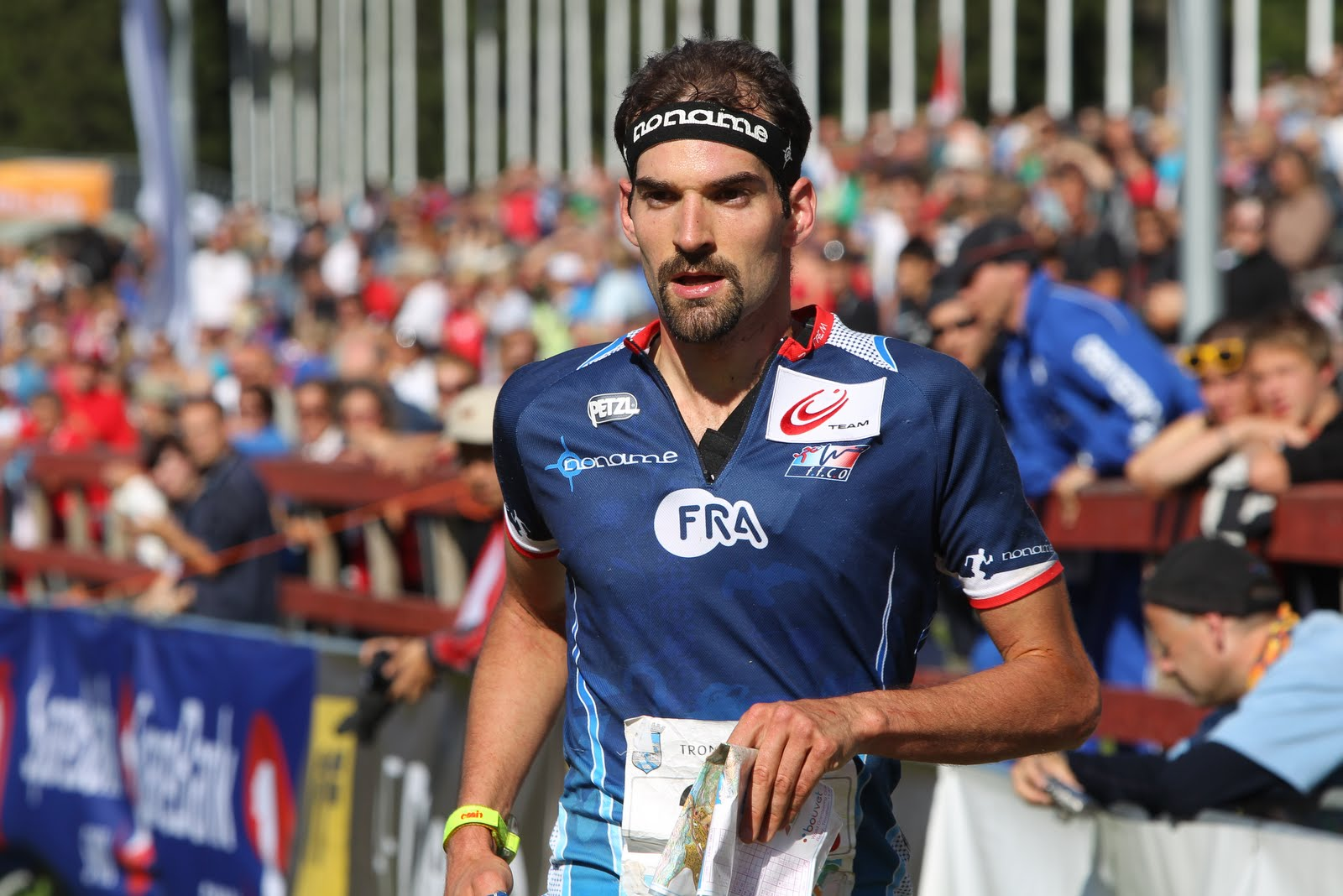 Thierry Gueorgiou at the finish at World Orienteering Championships 2010 in Trondheim, Norway